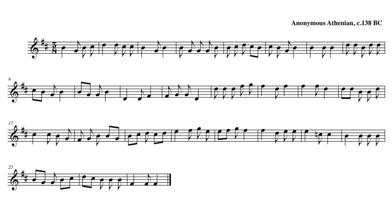 First Delphic Hymn, 138 BC, by an anonymous Athenian for the Pythian Games. done in Finale 2006 on a Macintosh, with a bit of Photoshop tweakage, by Antandrus (talk) Source: Harvard Anthology of Music. Two volumes. Cambridge, Massachusetts, Harvard University Press, 1949. ISBN 0674393007